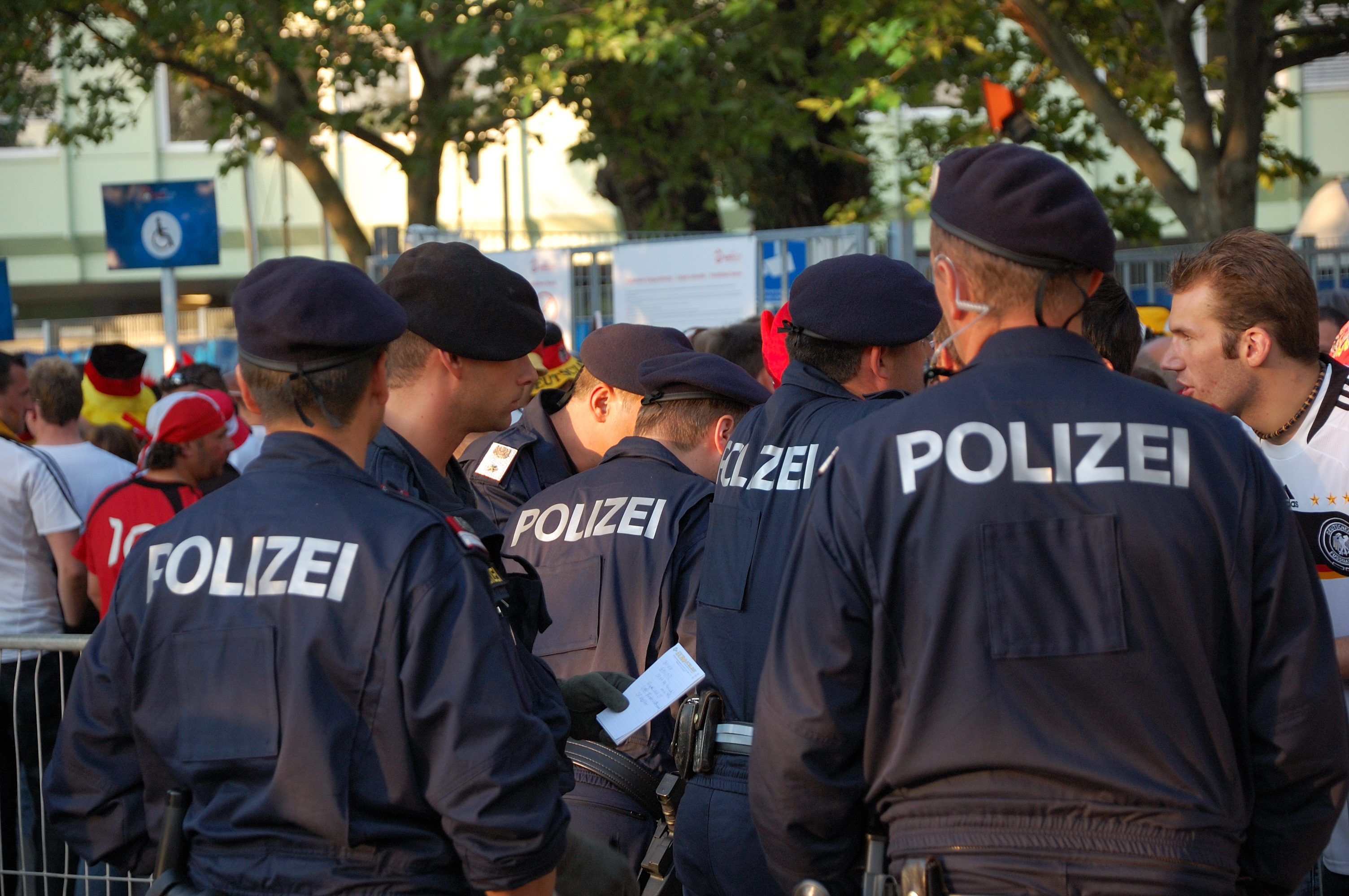 Einsatzeinheit-Forces of the Austrian federal police dealing with german Fans infront of the Ernst-Happel-Stadium in Vienna just before the start of the EURO 2008 football-match Austria vs. Germany.